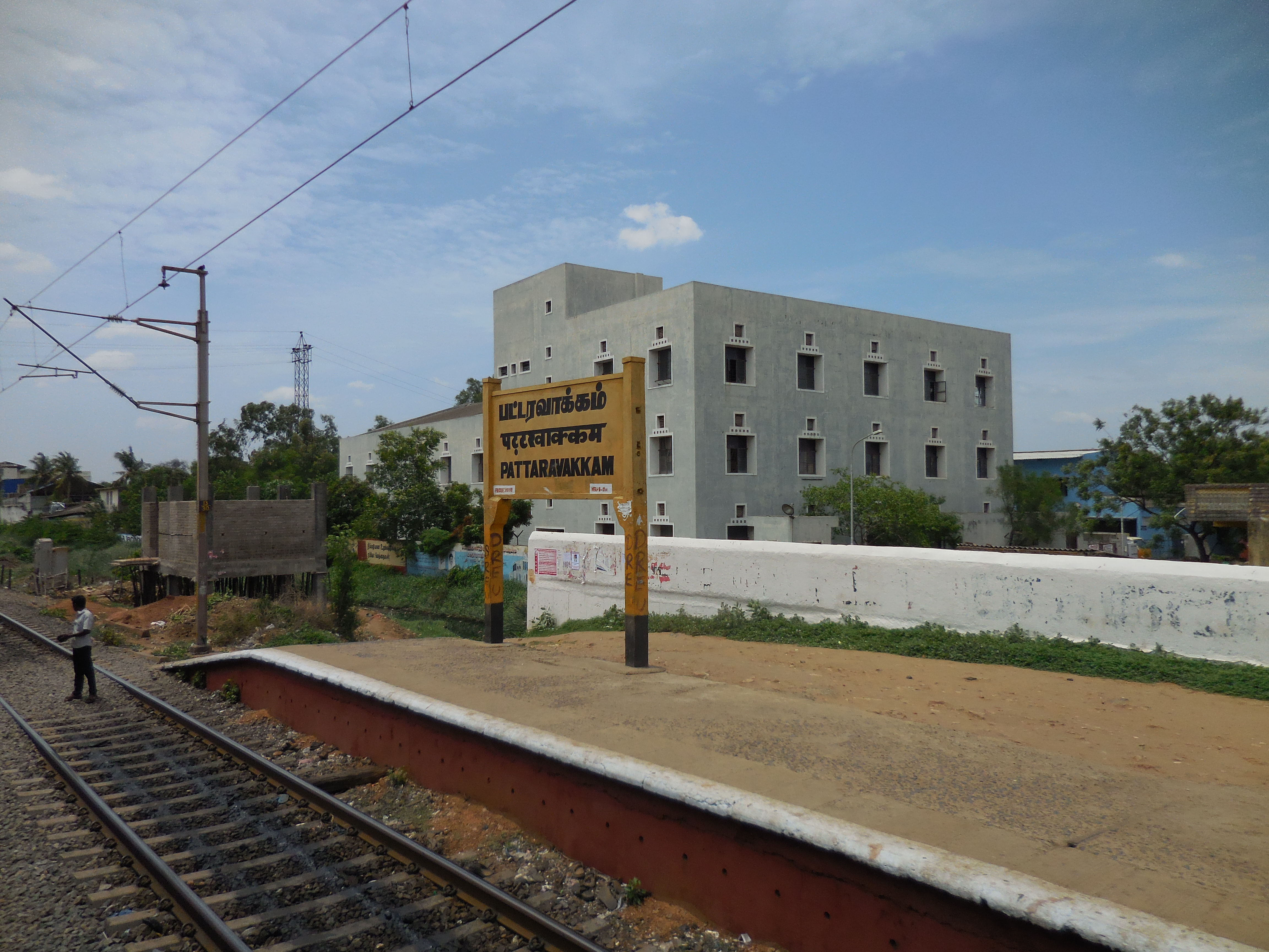 Eastern end of Pattaravakkam Station, Chennai, taken on 15 July 2014 at noon.